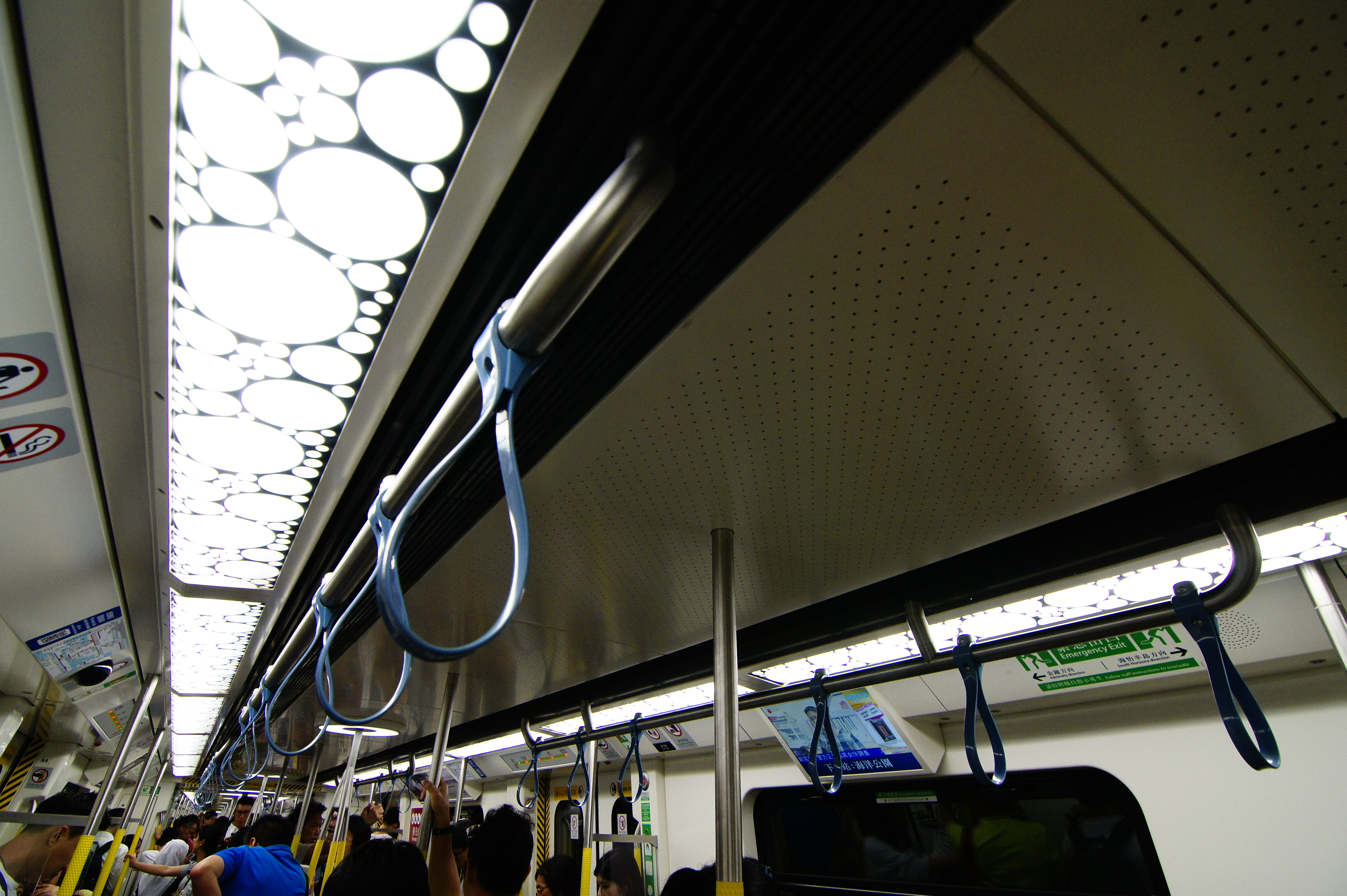 MTR South Island Line S-Train train compartment